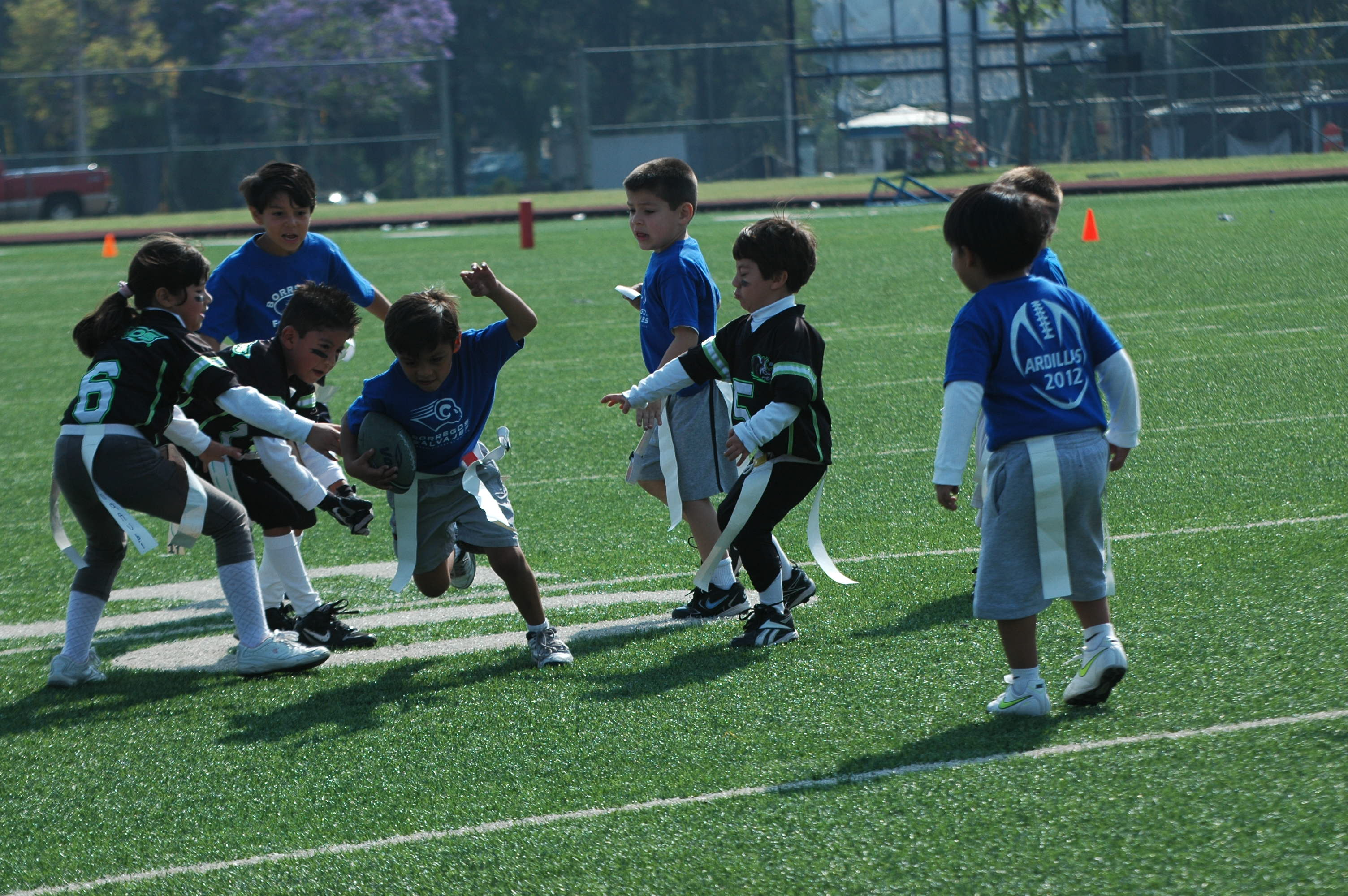 ITESM CCM junior “Ardillas” vs the Football Team Rhinos A.C.